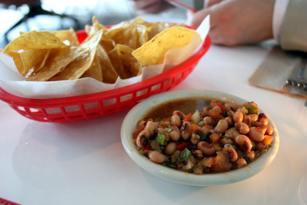 Dish of Texas caviar served with tortilla chips, at a Brooklyn, New York restaurant called Cowgirl Sea-Horse. Photo from blog post review of restaurant